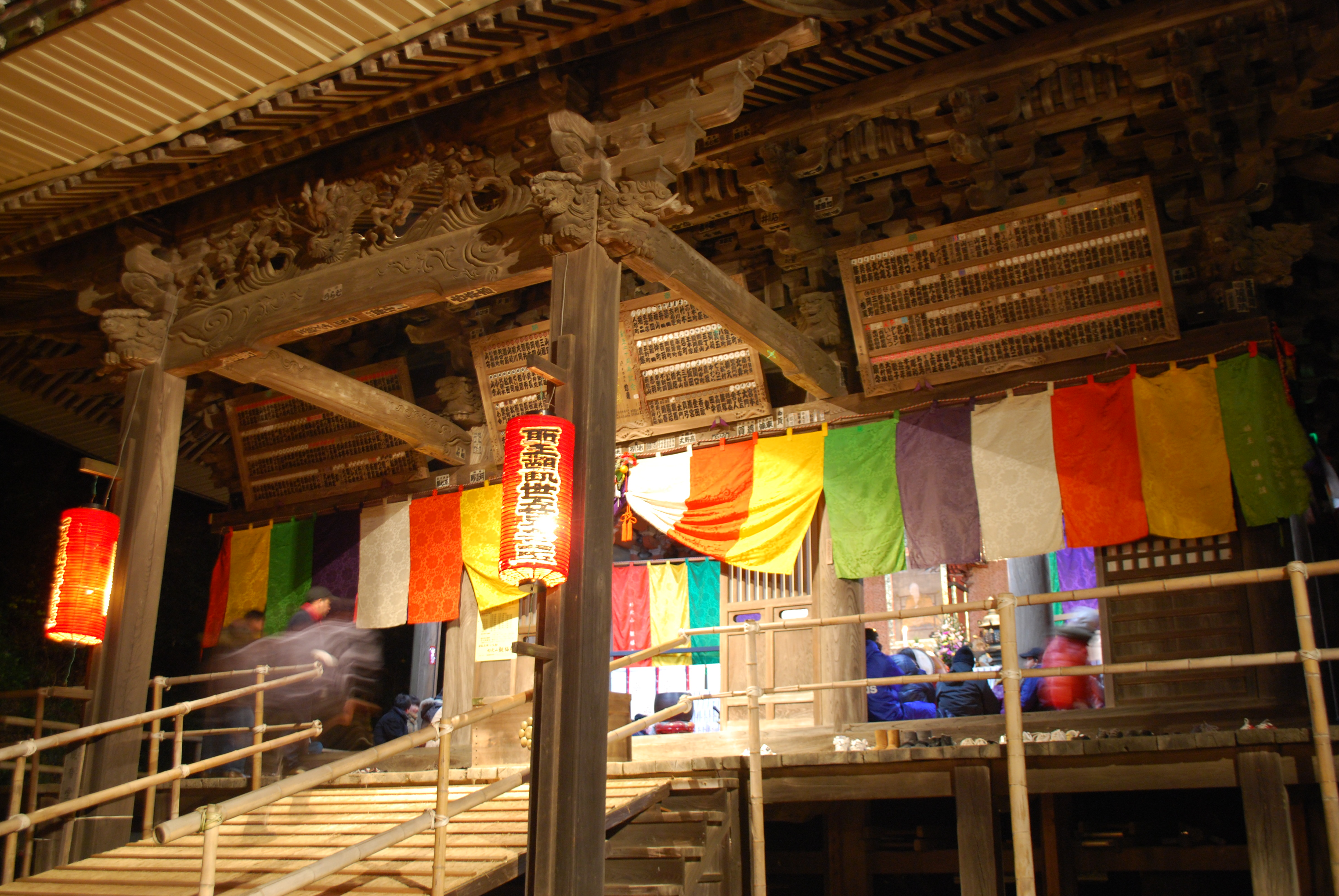 New Year homa (ritual) at the Kanpuku-ji temple in Katori City, Chiba Prefecture, Japan